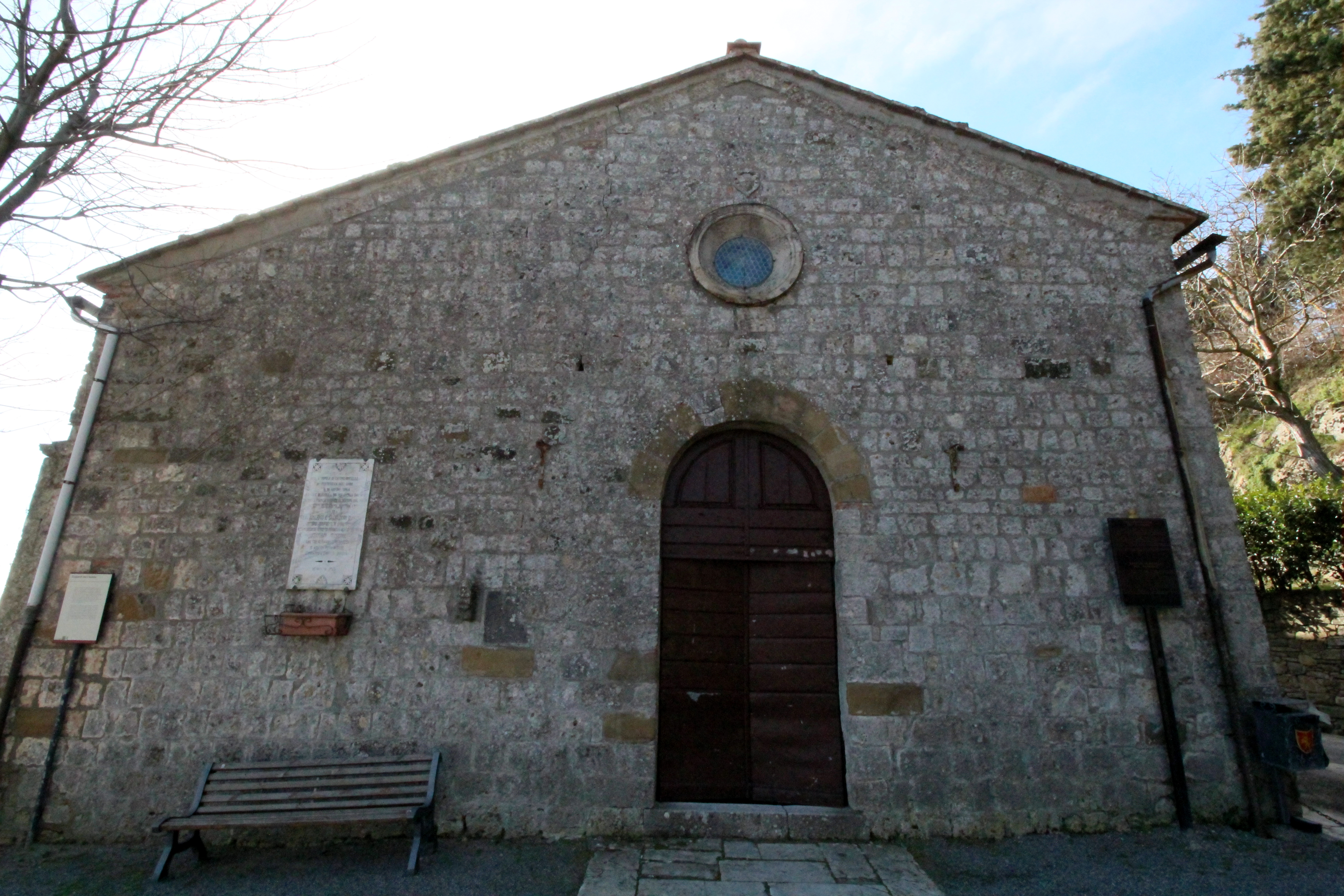 Church Sant'Andrea, Castiglioncello del Trinoro, hamlet of Sarteano, Province of Siena, Tuscany, Italy